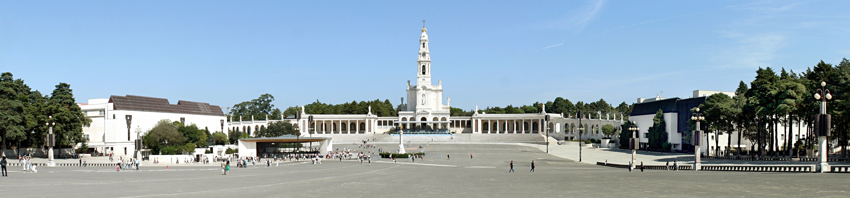 Fatima Main Square